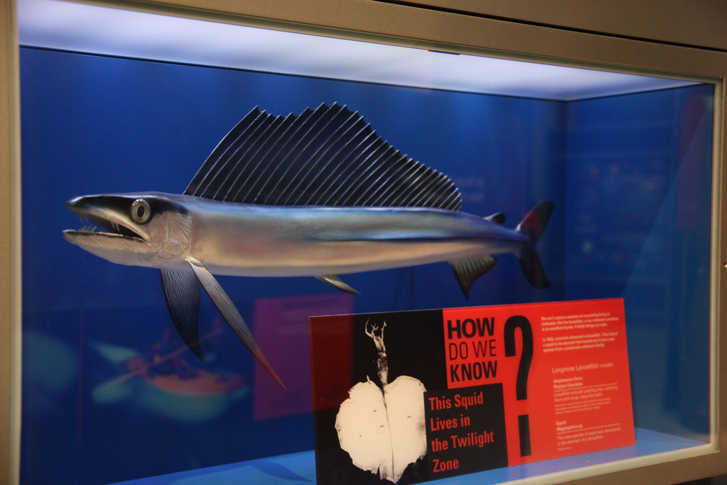 Model of a North Atlantic longnose lancetfish (Alepisaurus ferox) at the Sant Hall of Oceans at the Smithsonian Museum of Natural History in Washington, D.C., USA. Lancetfish grow to be about 6.6 feet (2 m) in length. Very little is known about them, even though they are quite common throughout the worlds oceans (except for the polar regions). Lancetfish are predatory, ambushing plankton, squid, and other fish. Sharks, albacore and yellowfin tuna, and seals all are known to eat lancetfish.